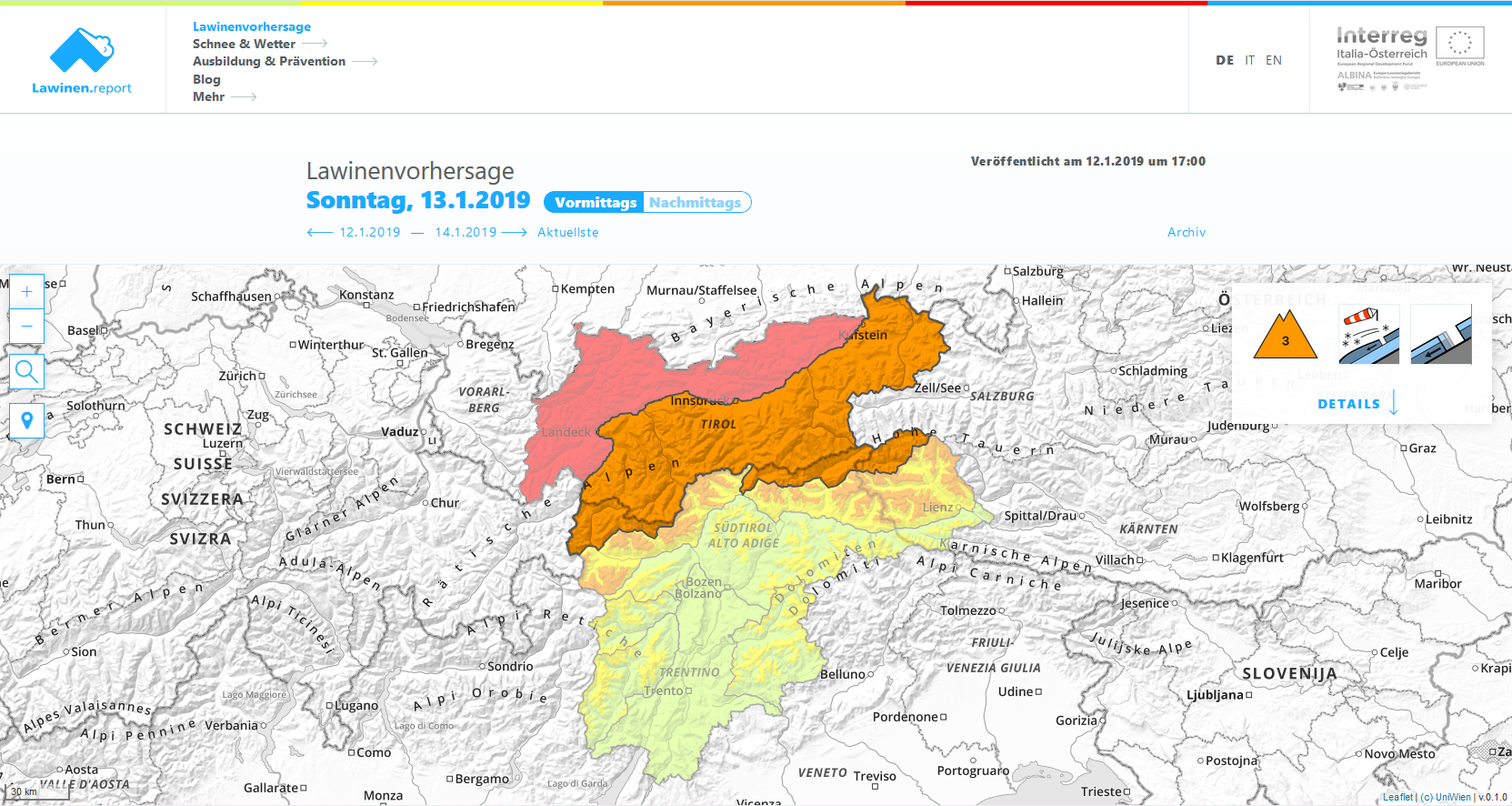 Example for an Avalanche-Report beyond national boundaries.